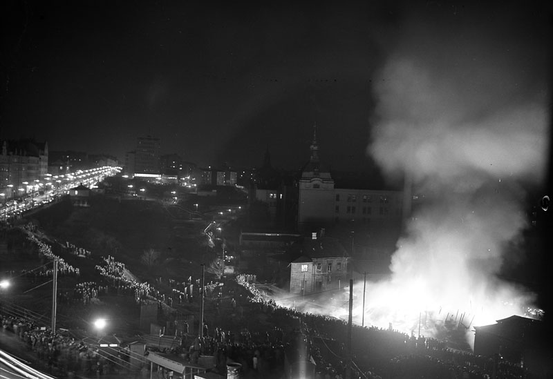 Fire in the Ligna industrial area Dec 23rd, 1953